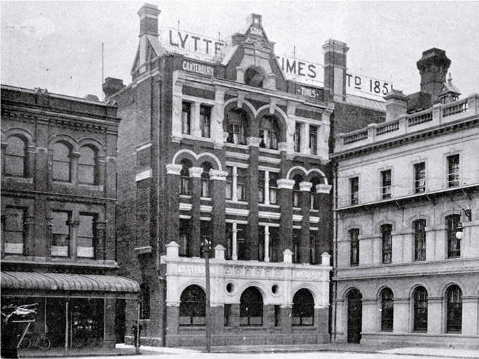 This is a view of the frontage on Cathedral Square, shown shortly after completion.